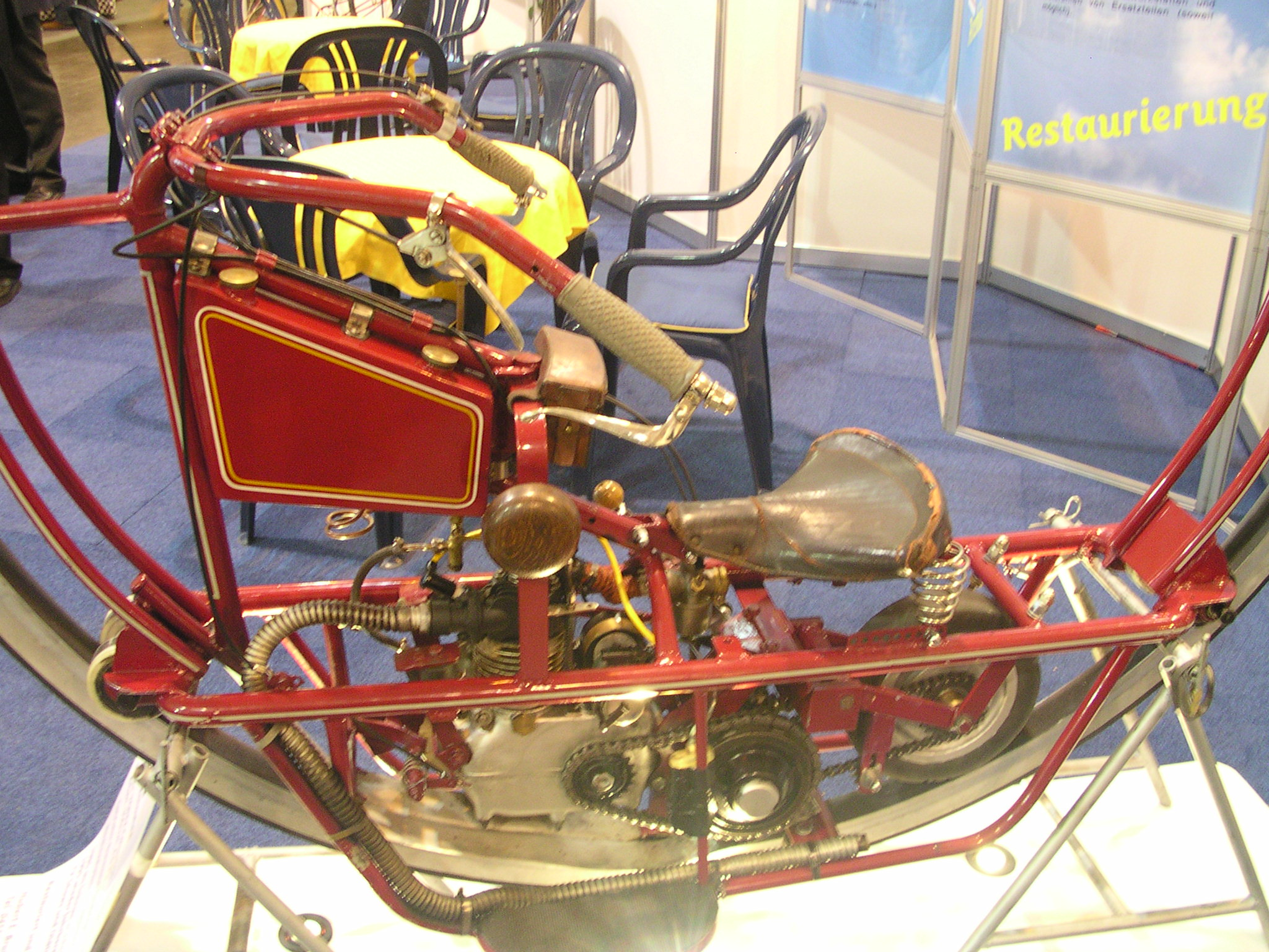 1924 circus monowheel engine: 250cc Horex Columbus (1924) & Buhrmann gearbox.